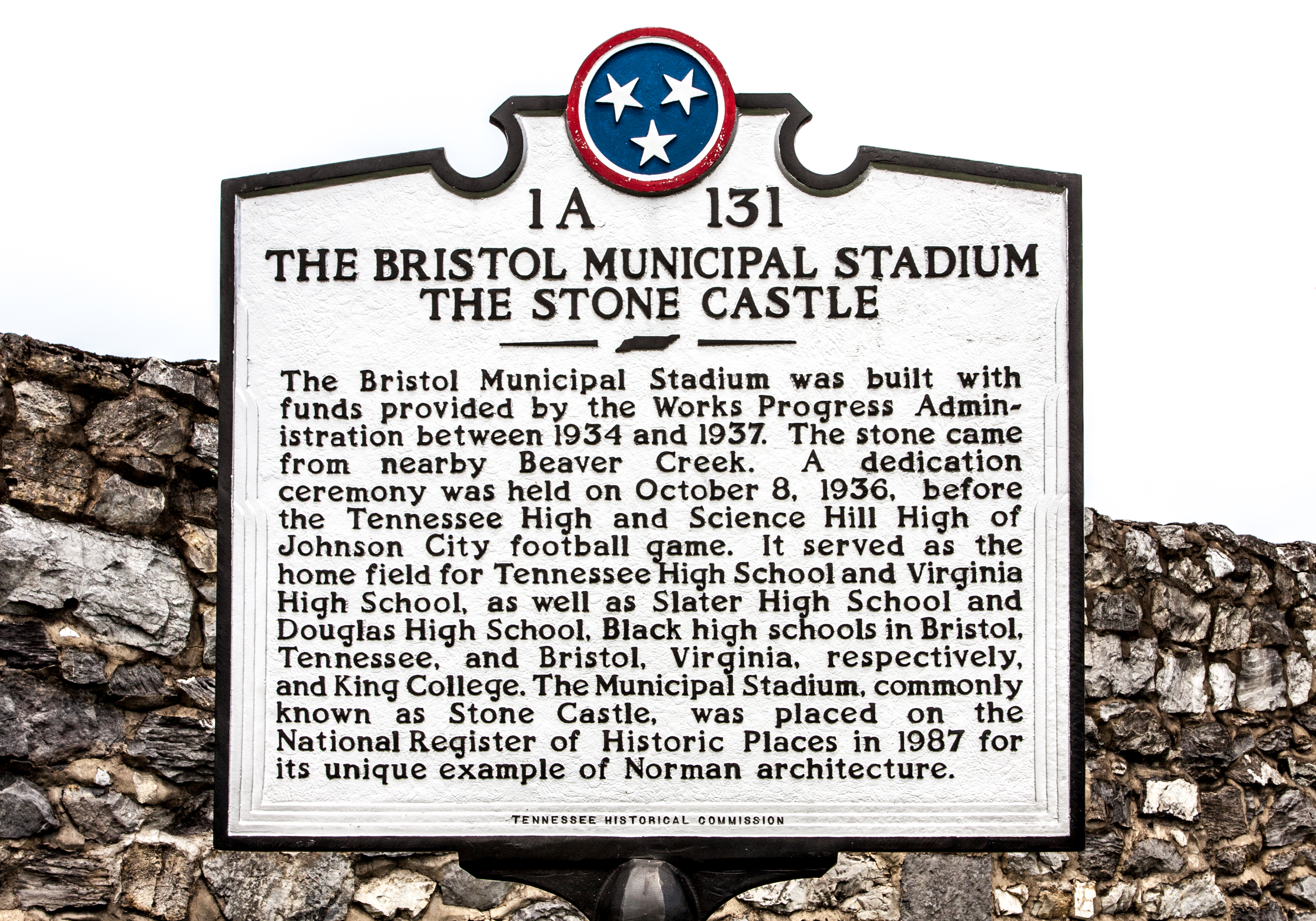 Historic marker for Bristol Municipal Stadium at Tennessee High School